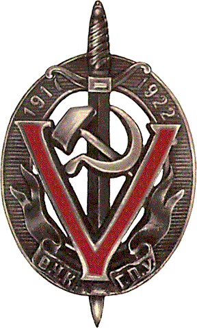 OGPU "1917-1922" (NKVD, KGB) 5 years